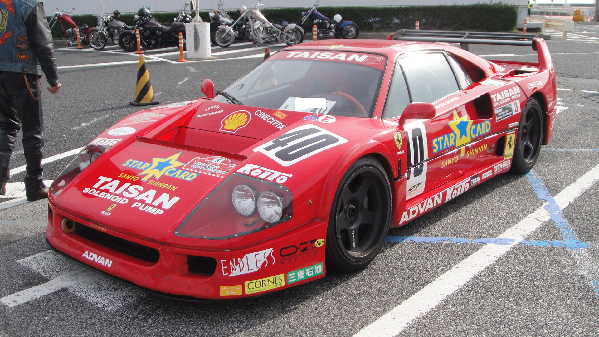 TAISAN STARCARD F40 No.40 front